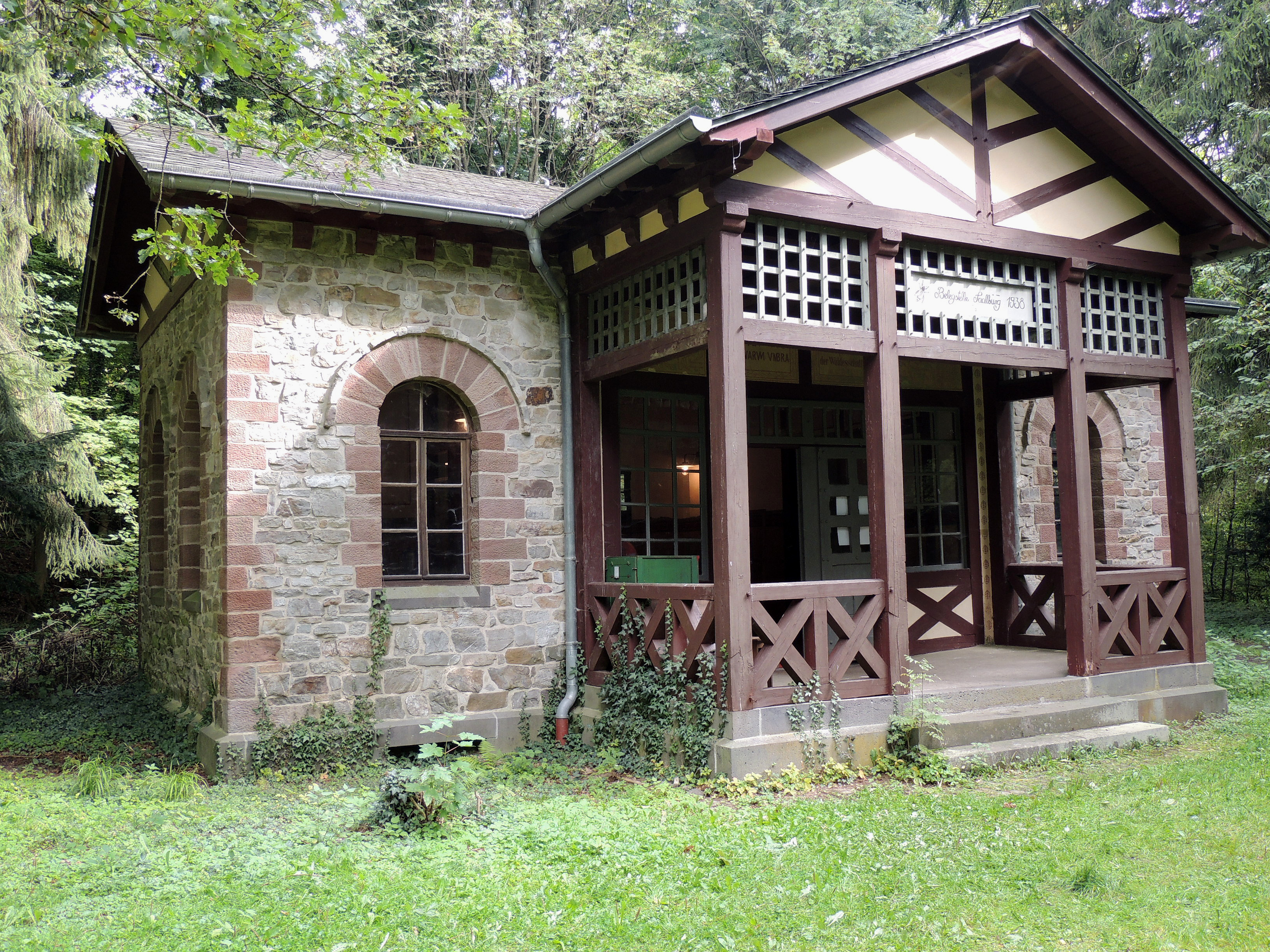 Former waiting room of the 1935 abandoned Saalburgbahn of the Bad Homburg Tramway at the Saalburg near Bad Homburg, Germany, in September 2017